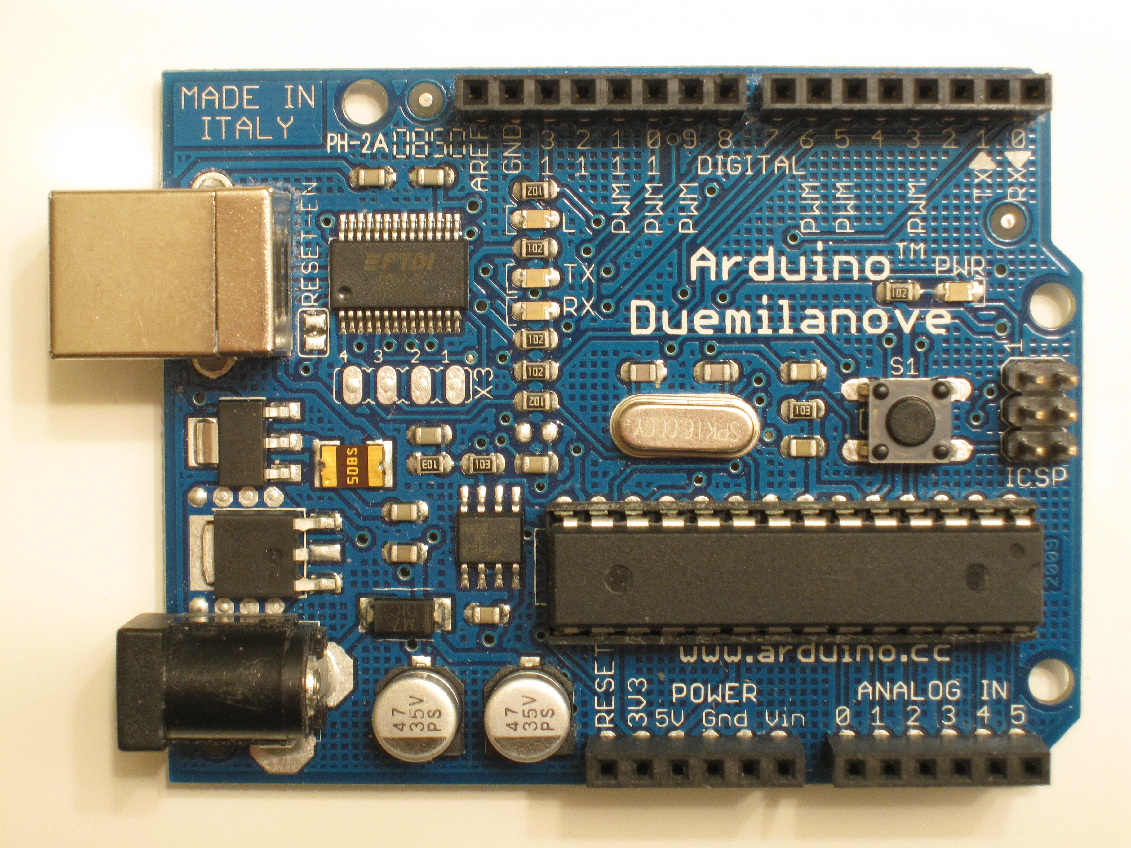 A shot of the most recent Arduino flagship board, the Duemilanove (2009).